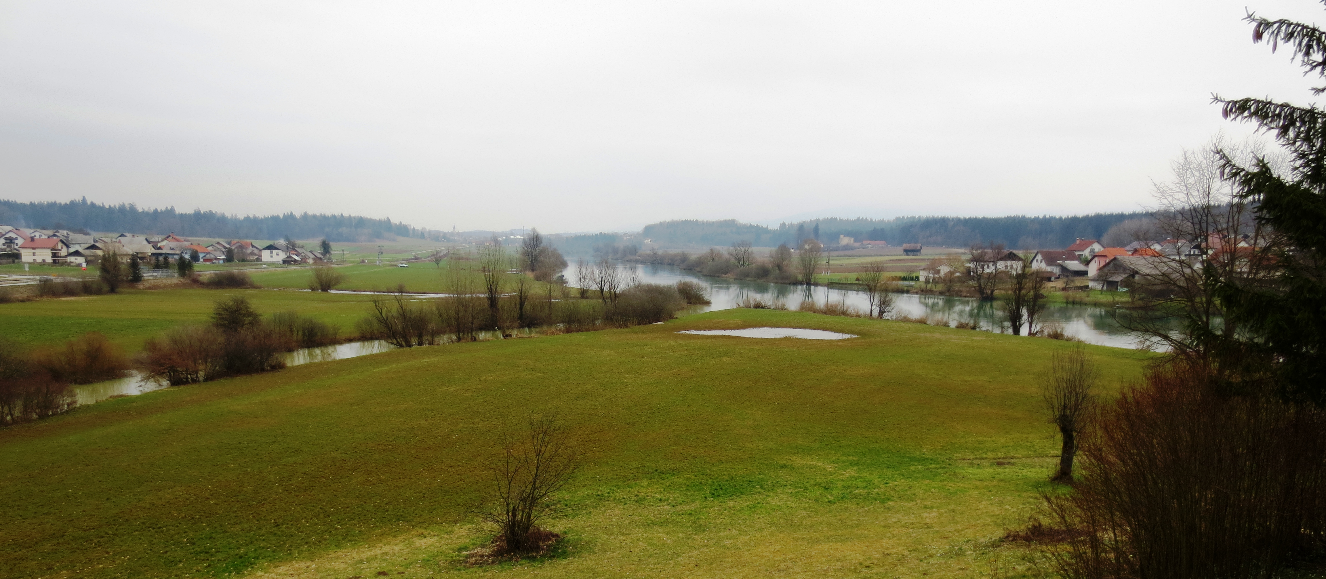 Temenica and Krka river